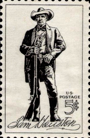 Sam Houston 5-cent commemorative U.S. stamp.